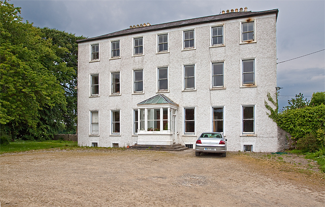 Tarbert House Dating from 1690, this Georgian house in the Queen Anne style was built by John Leslie. It remains the Leslie family home to this day, and is occasionally open to the public during the summer months. Past visitors to the house have included Daniel O'Connell, Charlotte Bronte, Benjamin Franklin, Lord Kitchener, Winston Churchill, and Dean Swift.